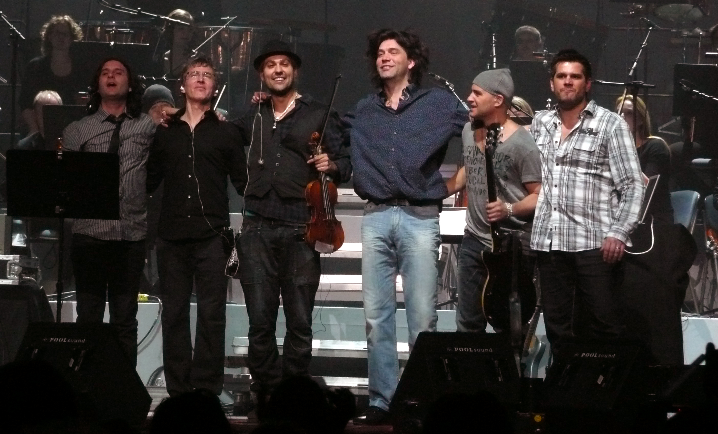 David Garrett and his band in Cologne on 15 January 2010